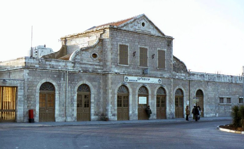 Retouched version of Jerusalem Railway Station in 1978.